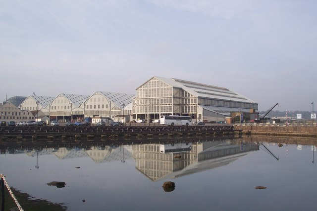 The Historic Dockyard, Chatham across Mast Pond This large attraction in Chatham. for more details. Seen from North Pondside Road, near the Ramada Hotel. "Before they were prepared, the tall pine or fir timbers used for masts were kept in the ponds, potentially for decades, so they wouldn't become brittle and easily breakable as the resin dried. Brick arches kept the masts completely submerged in lime-treated water which prevented creatures from damaging the wood." for more details on the dockyard. Wikidata has entry Q17649580 with data related to this item.